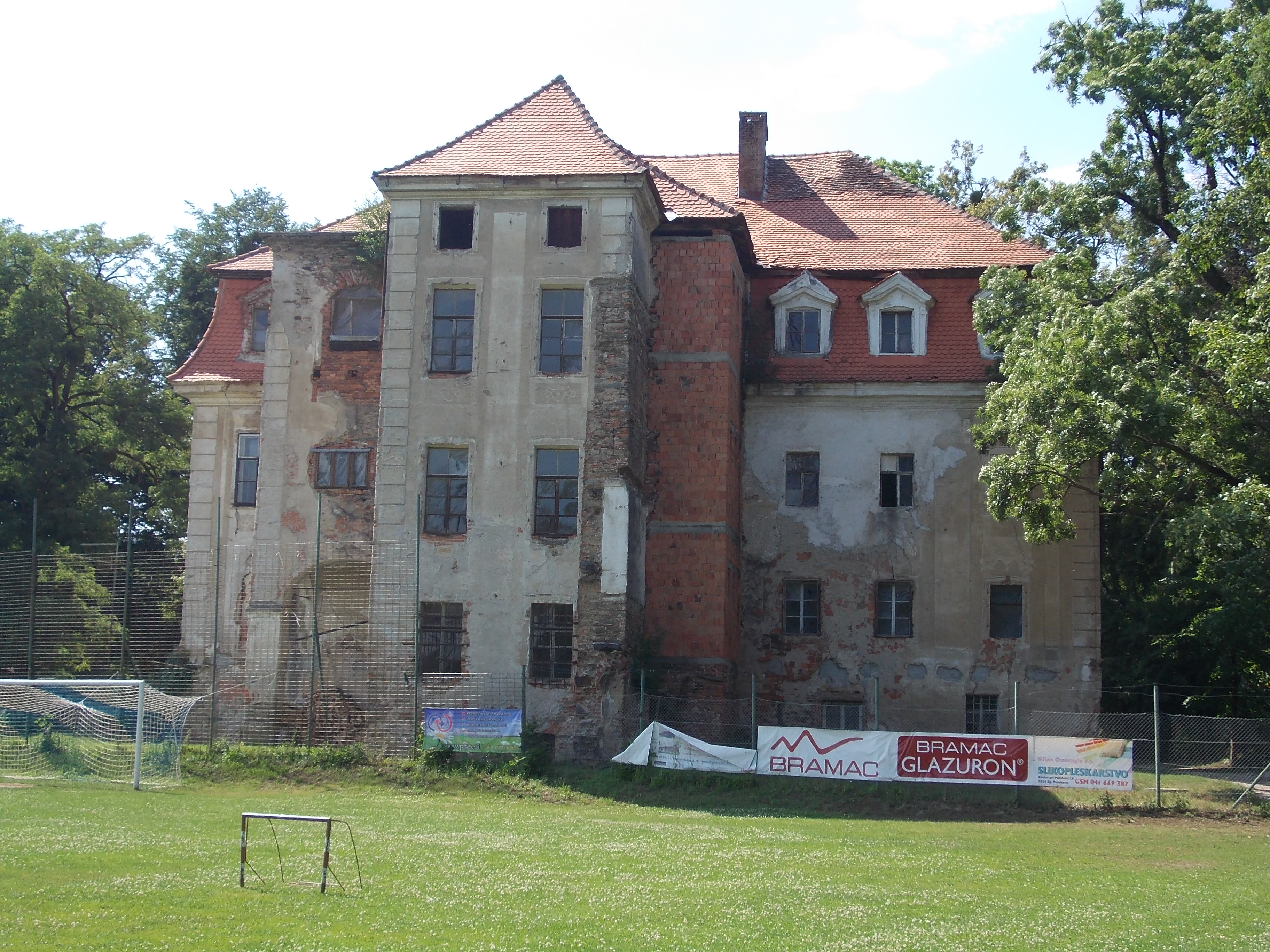 Zgornja Polskava Mansion